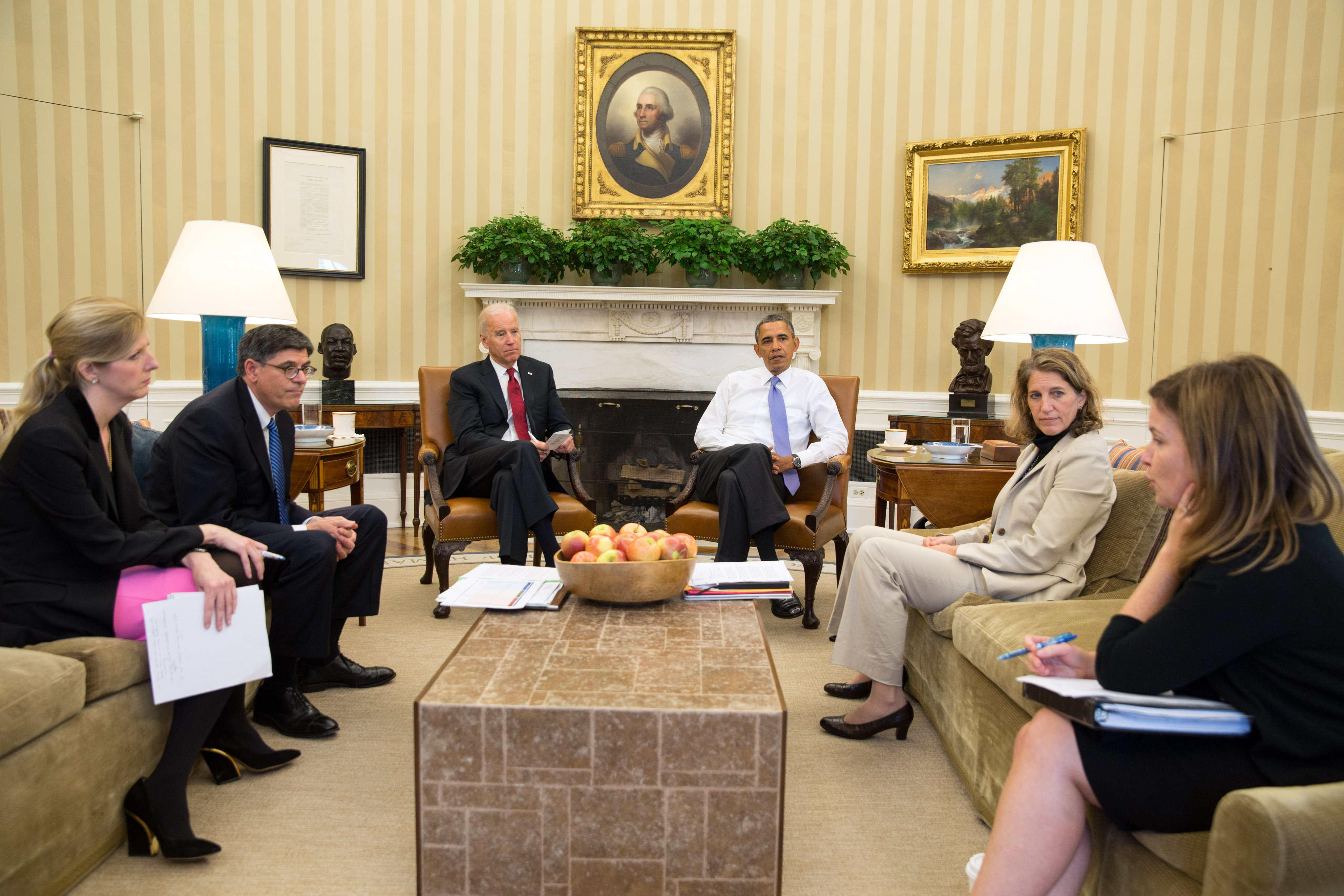 President Barack Obama and Vice President Joe Biden listen as they are updated on the federal government shutdown and the approaching debt ceiling deadline, in the Oval Office, Oct. 1, 2013. From left, Kathryn Ruemmler, Counsel to the President, Treasury Secretary Jack Lew, Sylvia Mathews Burwell, Director of OMB, and Alyssa Mastromonaco, Deputy Chief of Staff. (Official White House Photo by Pete Souza)